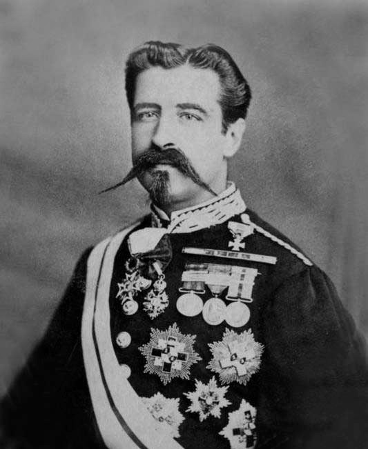 Portrait of the Captain General of the Philipines.